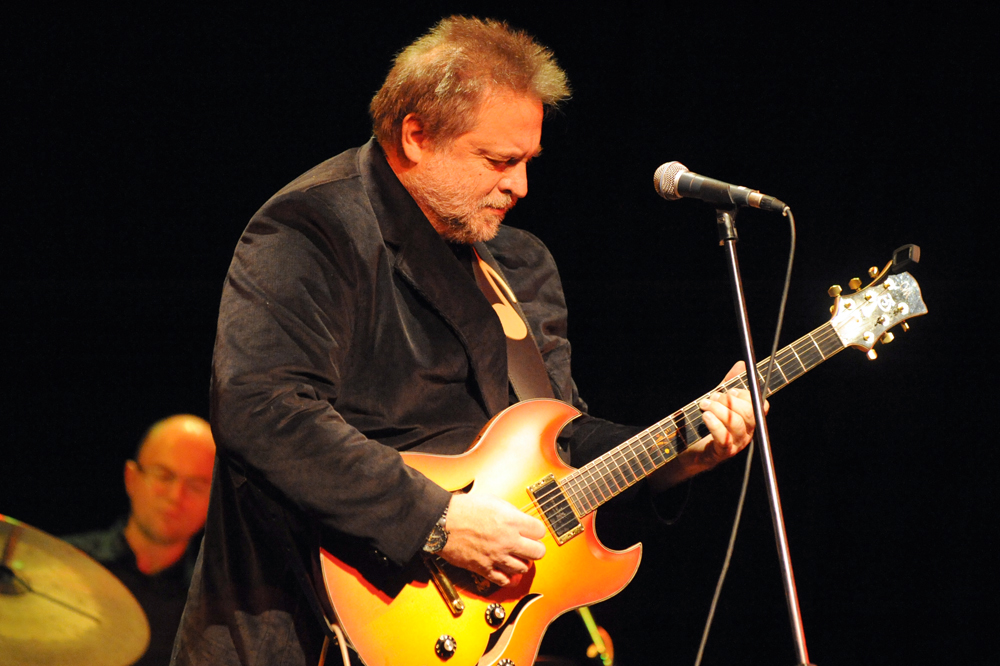 Jarosław Smietana on guitar during a benefit concert in Warszawa, Poland in November 2010.